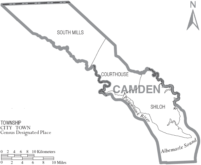 Map of Camden County, North Carolina, United States with township and municipal boundaries